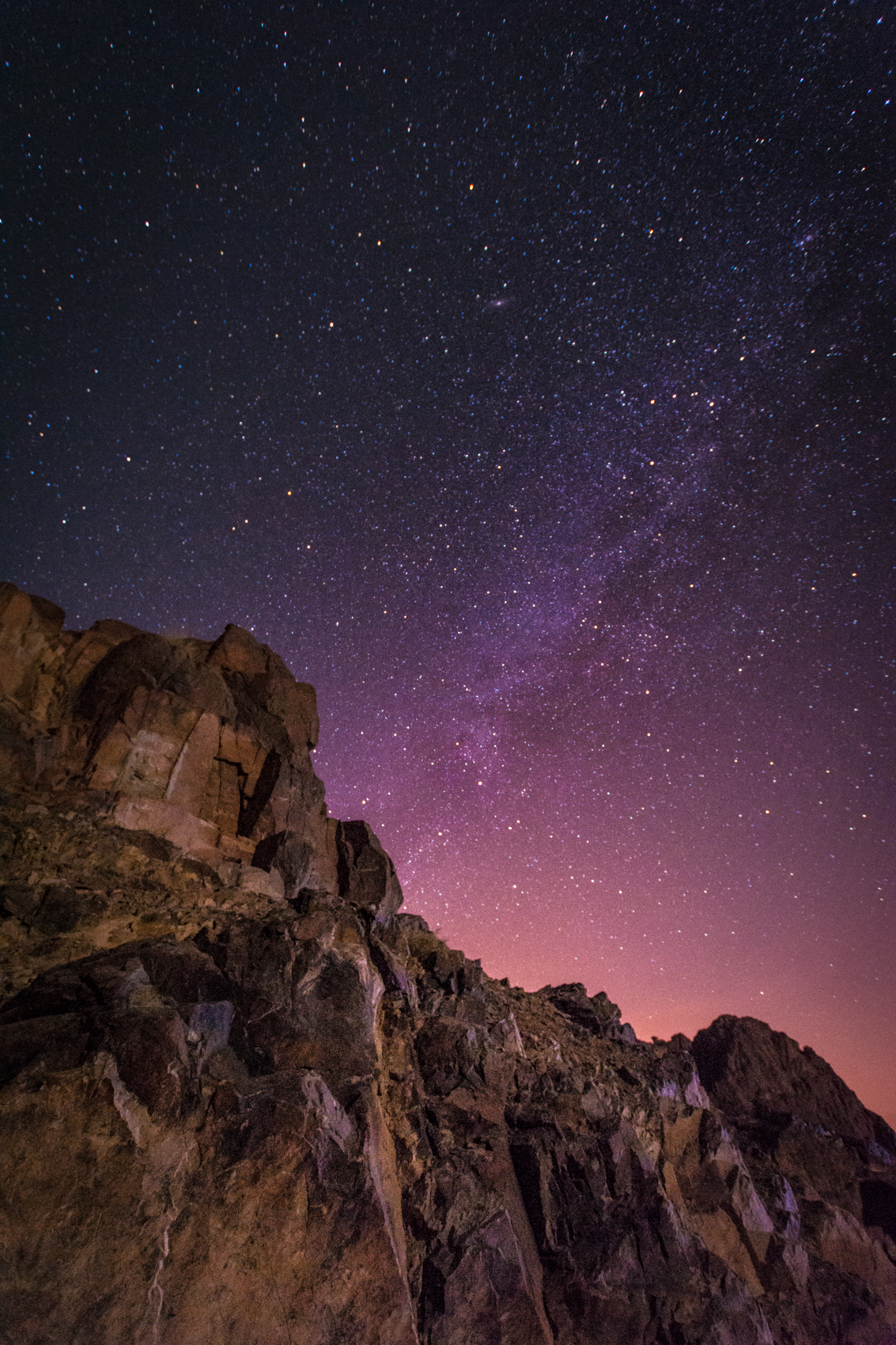 The photo was taken in Saint Catherine, Egypt and it shows the beauty and texture of mountains in front of the beauty of millions of stars